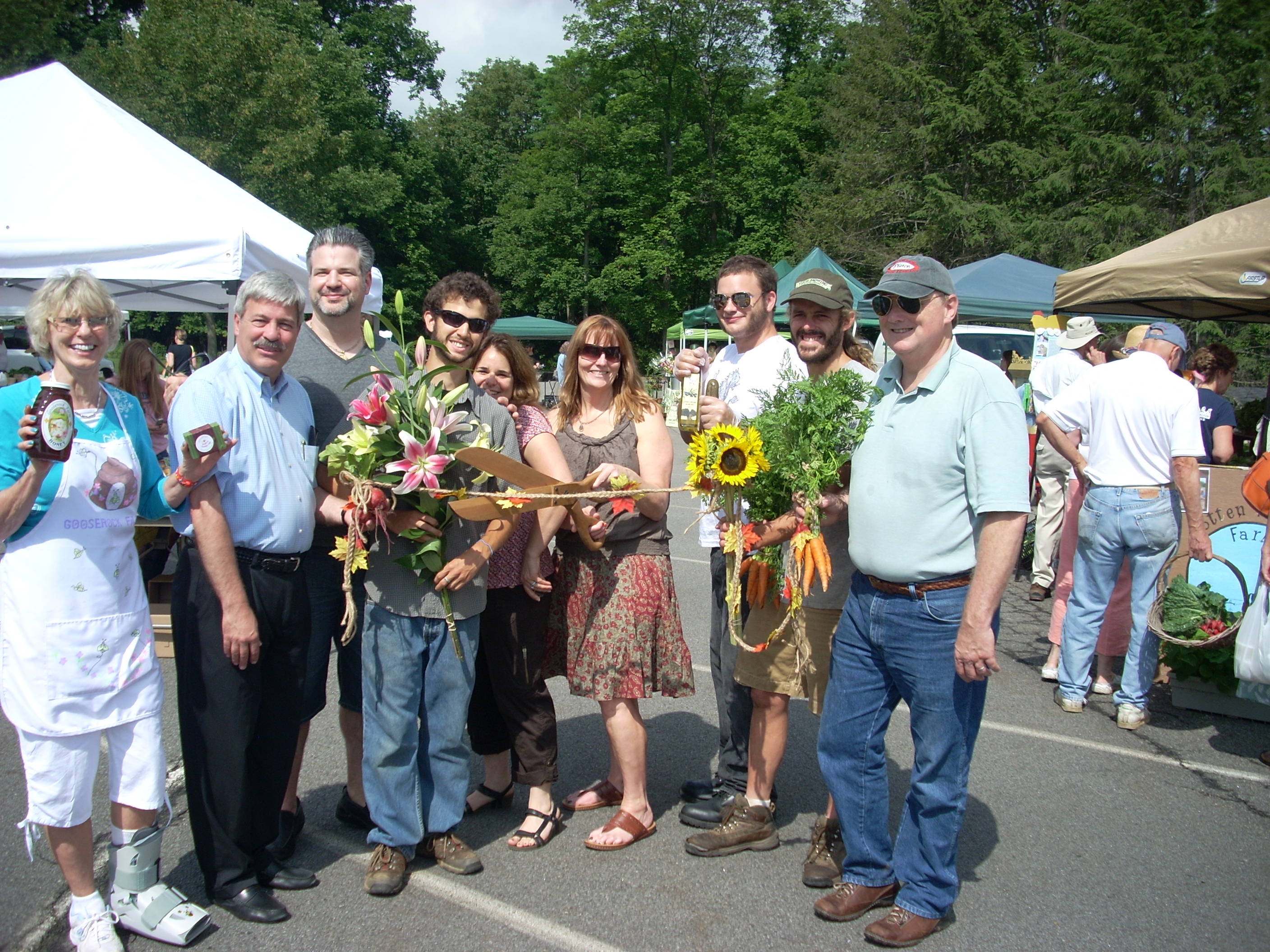 Mendham Township Farmers Market